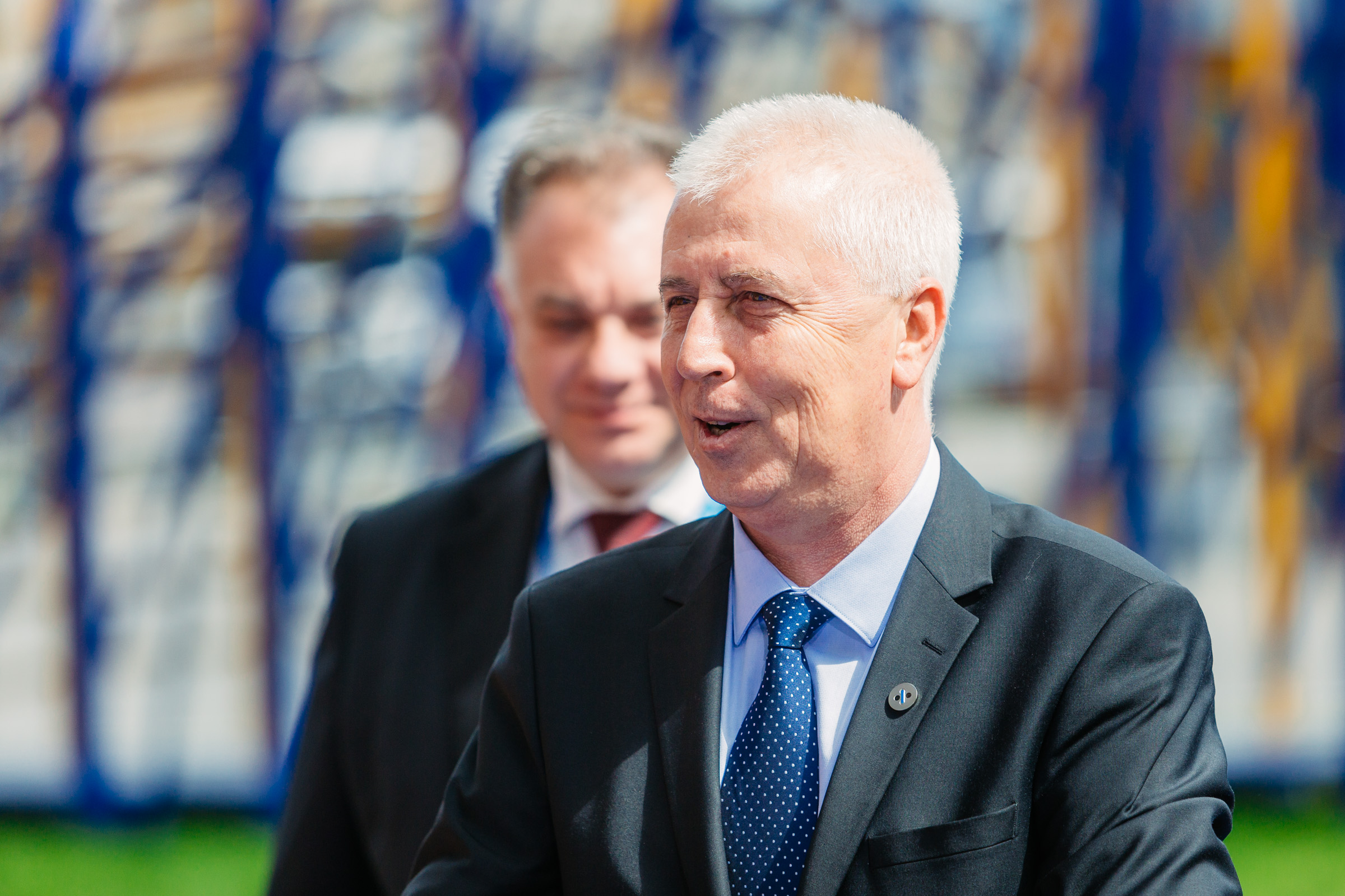 Nikolay Petrov, Minister, Ministry of Health, Bulgaria